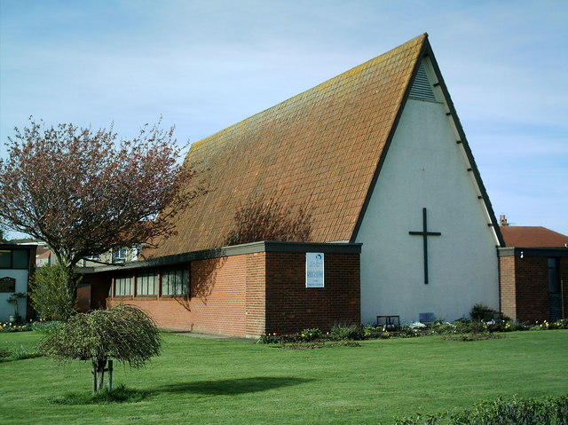 Park Church Ardrossan